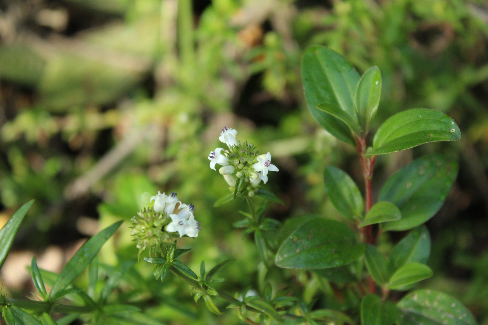 Galianthe bogotensis. Species of plant.